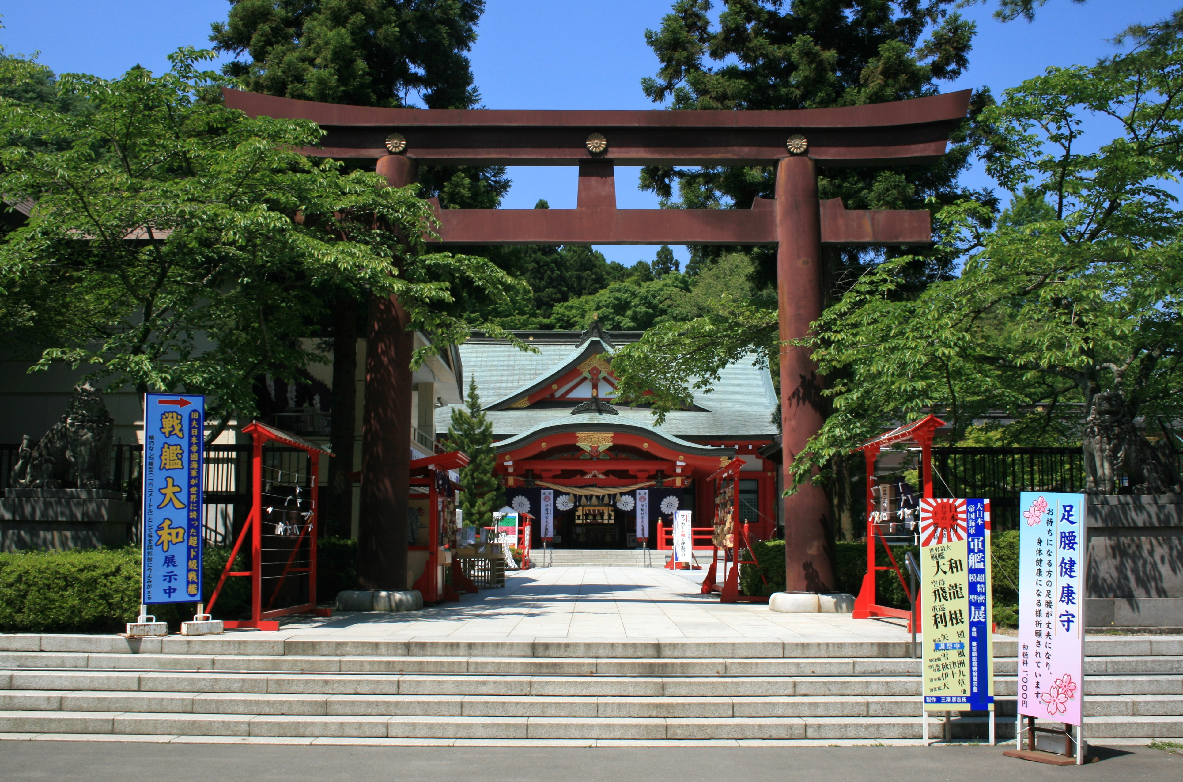 Miyagi Prefecture Gokoku Shrine Gate (Miyagi-ken Gokoku-jinja Torii). It is in Tenshudai, Kawauchi, Aoba Ward (Aoba-ku), Miyagi Prefecture (Miyagi-ken), Japan.